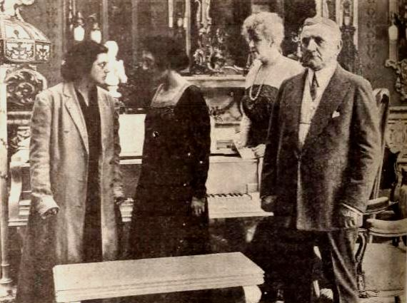 Still from the American drama film The City of Purple Dreams (1918) with Fritzi Brunette, Bessie Eyton, Frank Clark, and an unidentified actress in the background, on page 26 of the February 16, 1918 Exhibitors Herald.